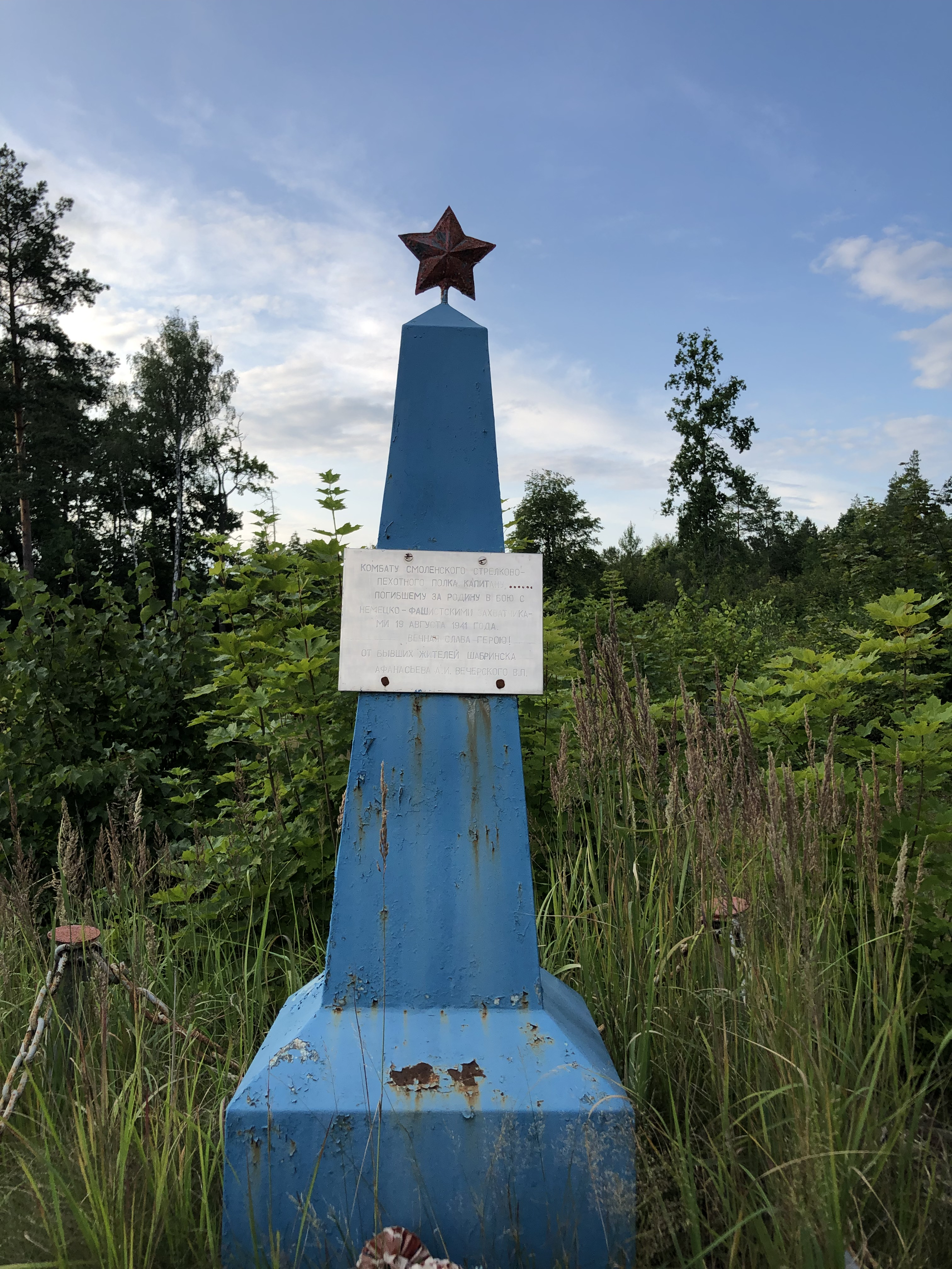 Monument to Gomel defenders against German invaders